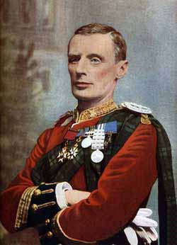 Colourised photo of Major General Andrew Gilbert Wauchope